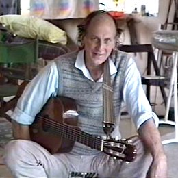 Chris Kempster, Australian singer, explains the genesis of his setting of "Reedy River" in 1992: still frame from publicly available video by Rob Willis (copy at